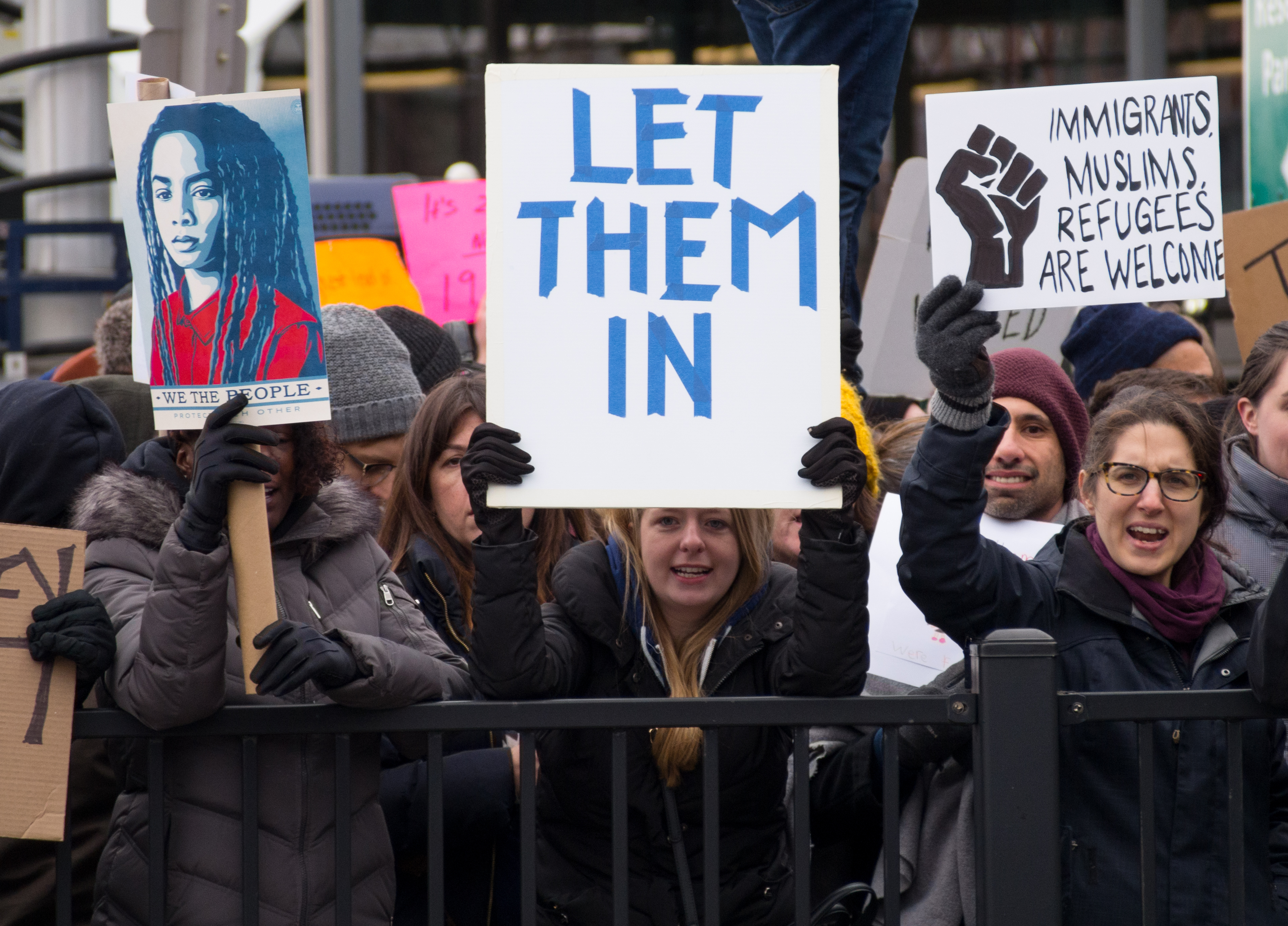 Protest at John F. Kennedy International Airport (JFK), Terminal 4, in New York City, against Donald Trump's executive order signed in January 2017 banning citizens of seven countries from traveling to the United States (the executive order is also known as "Protecting the Nation from Foreign Terrorist Entry into the United States").